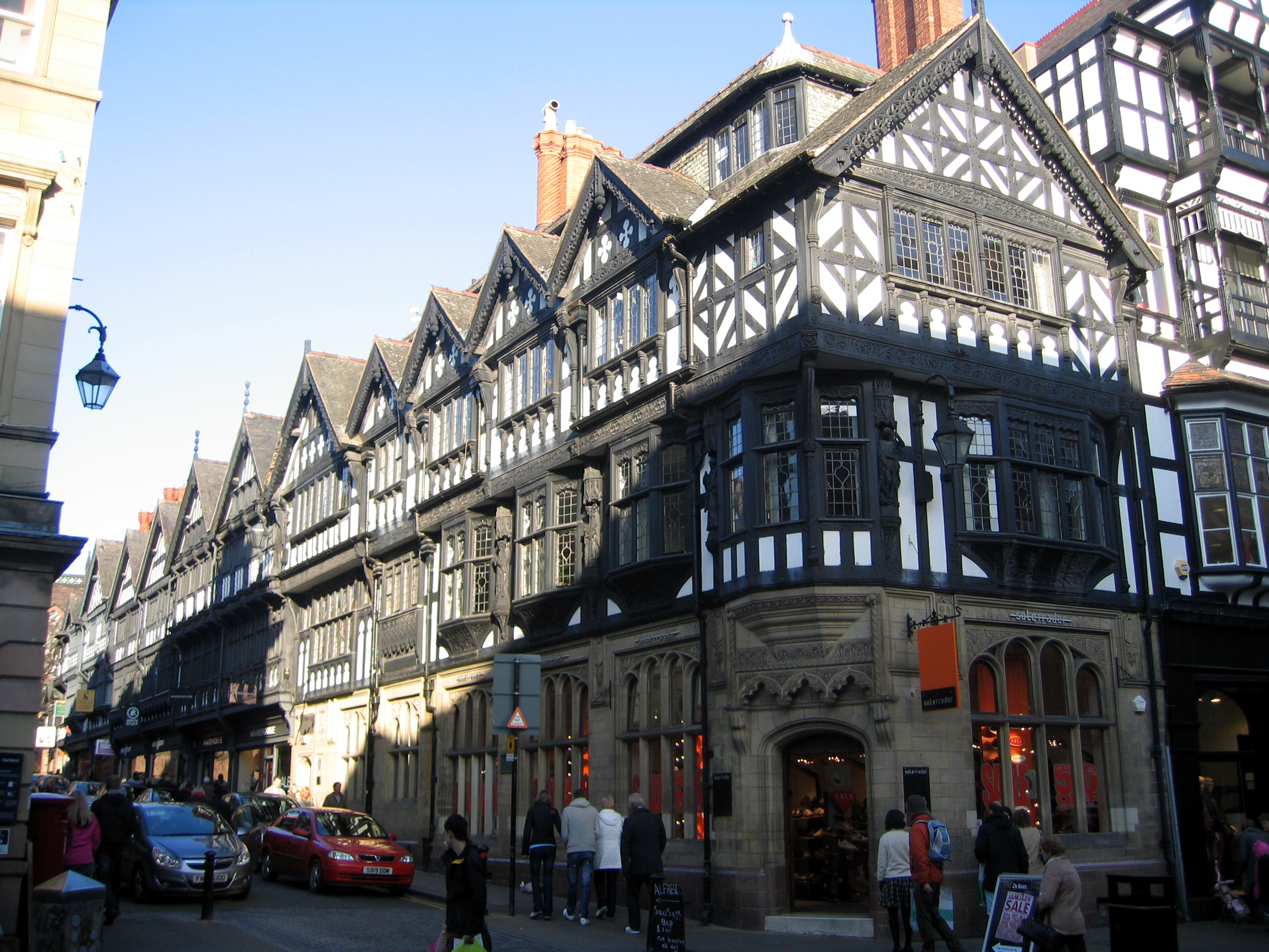 Photograph of St Werburgh Street, Chester